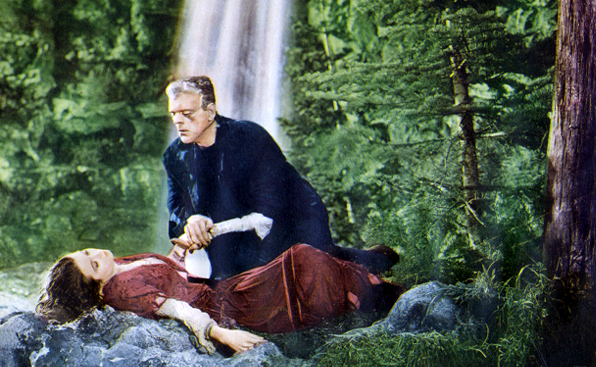 Cropped and edited version of this file, featuring Boris Karloff in The Bride of Frankenstein. This image is in the public domain, as no copyright notice was attached to the original.